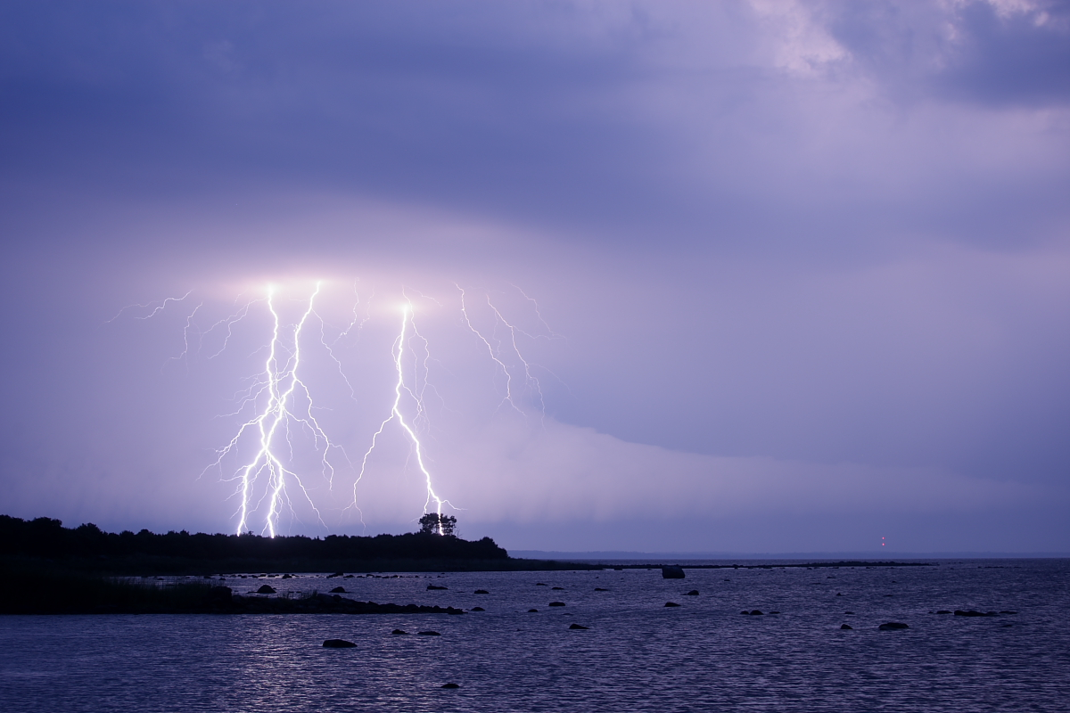 Lightning at Kumari, Lääne County, Estonia